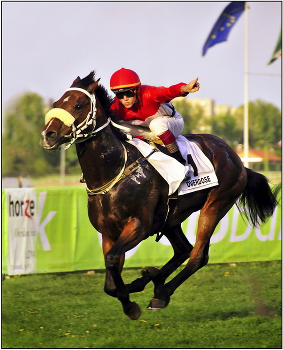 Overdose - the hungarian wonder horse, world's fastest sprinter, rode by the world's best jockey - Soumillon!